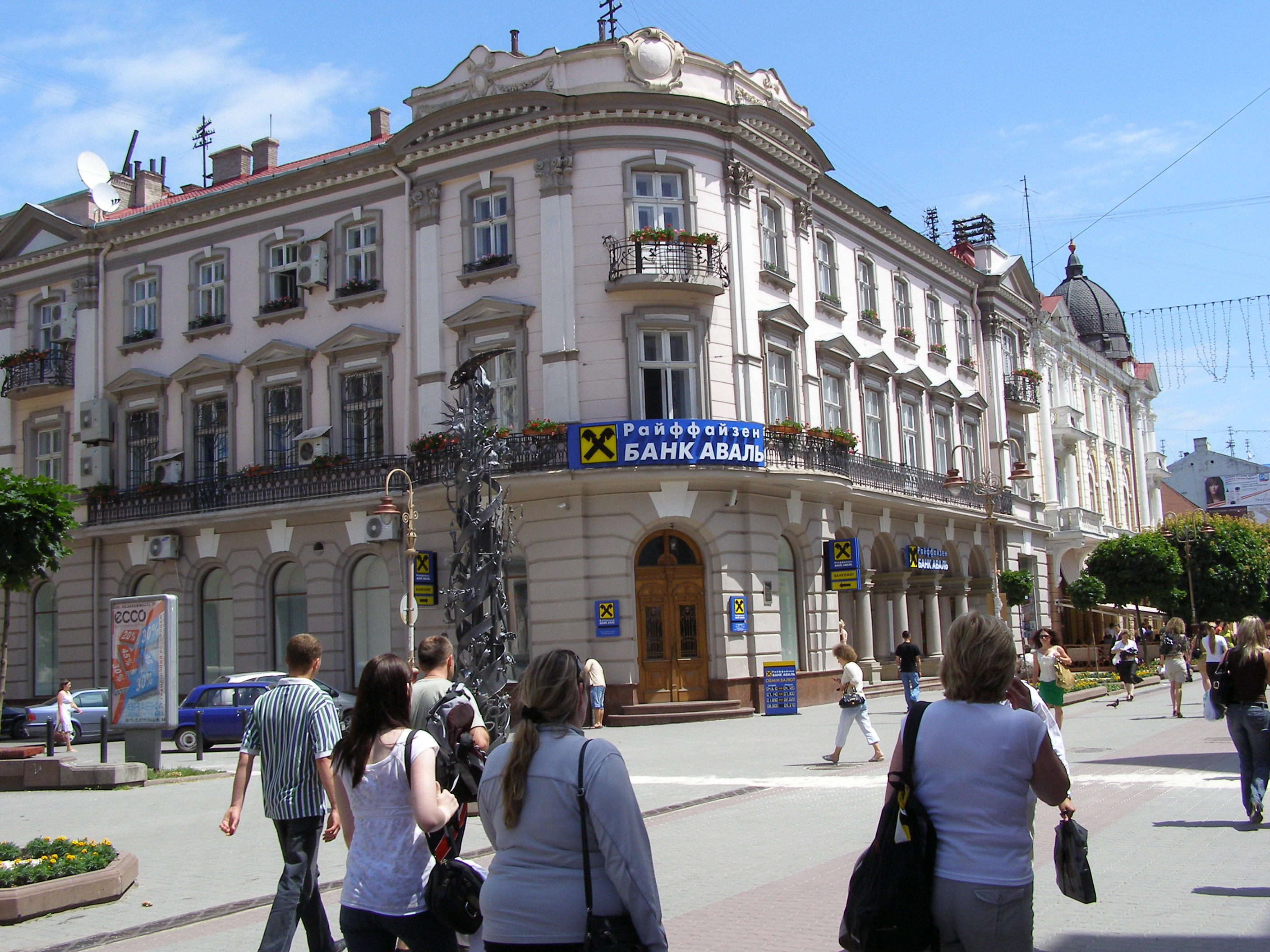 View from Ivano-Frankivsk, western Ukraine.